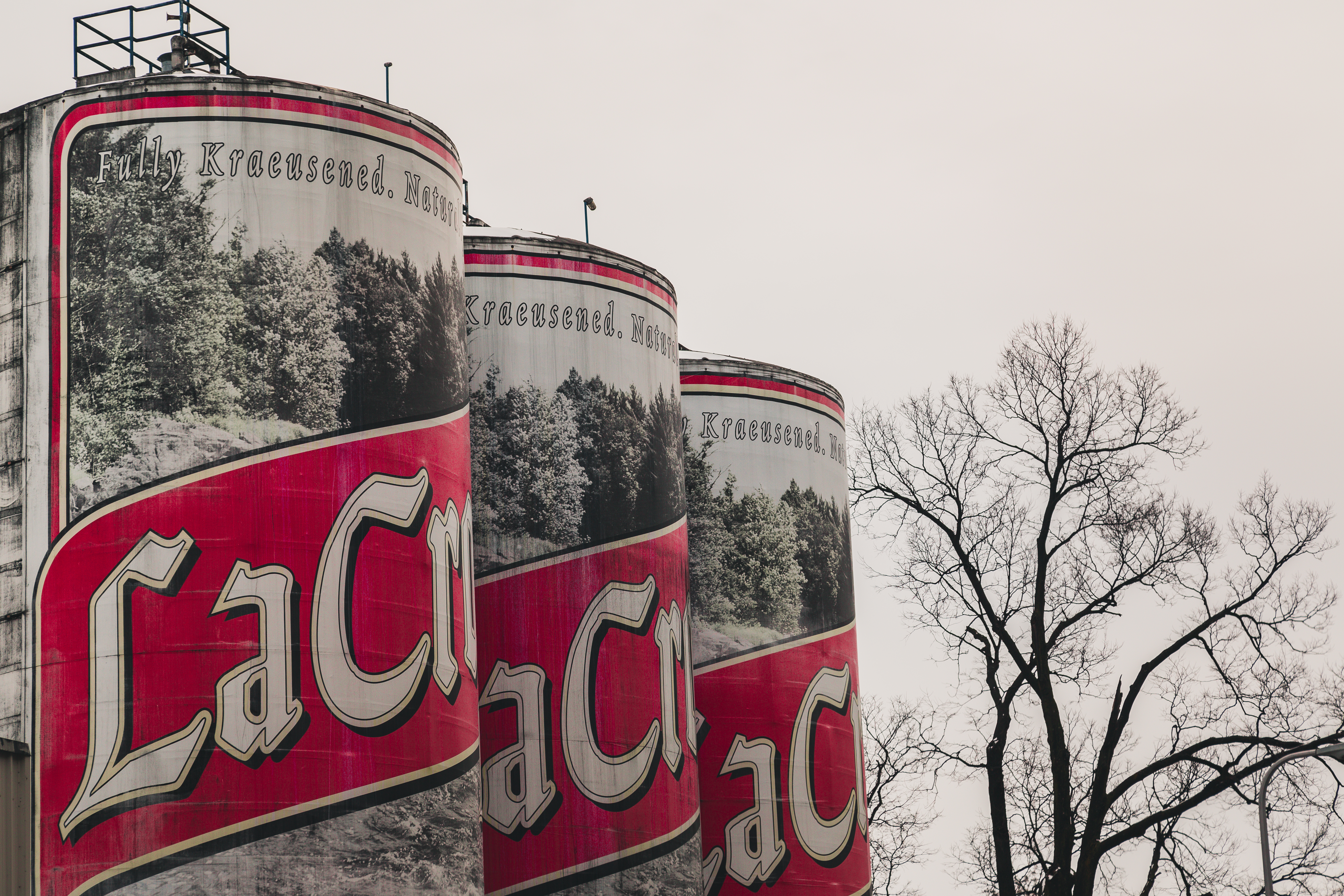 G. Heileman Brewing Company's "World Largest Six-Pack", now owned by City Brewing with branding for La Crosse Lager - 3rd Street South in La Crosse, Wisconsin.